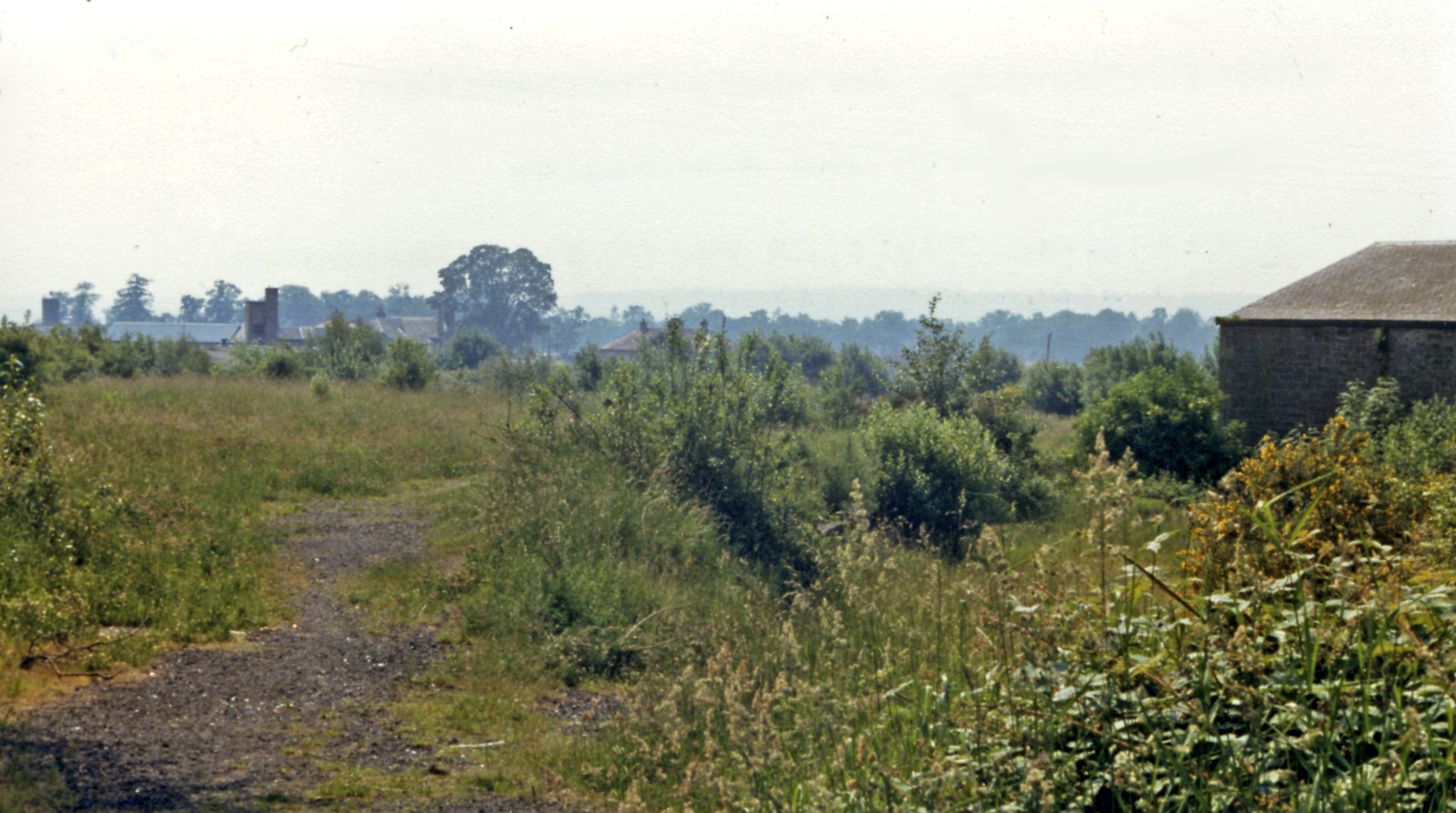 Site of Crieff station (!). View SE, towards Perth, also Gleneagles: ex-Caledonian Railway Perth/Gleneagles - Comrie - Balquihidder lines. The station closed to passengers 6/7/64 with the lines to Comrie and to Gleneagles, but although the passenger service to Perth vai Almond Valley Junction ceased 10/10/51, goods continued until 11/9/67. The building on the right was a Goods station - and still had a window etched 'L.M.S.R.'